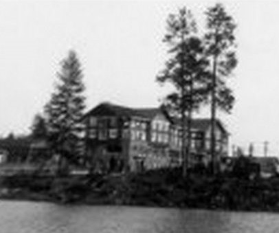 Postcard image of Pilot Butte Inn with the Deschutes River in the foreground; taken in 1917 when the inn was new; Pilot Butte Inn was listed on the National Register of Historic Places; however, the building was demolished in 1973.